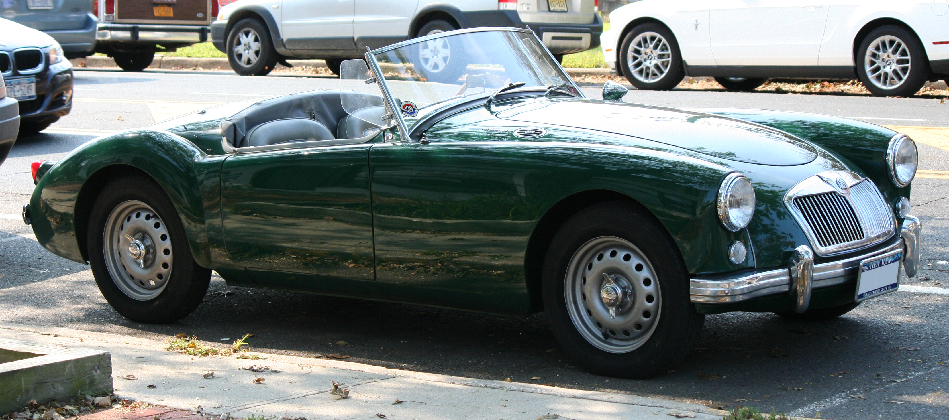 MGA Twin Cam. Somewhat mysteriously titled as a 1961 even though production came to an end in April 1960. Dunlop steel knock-off peg-drive wheels.